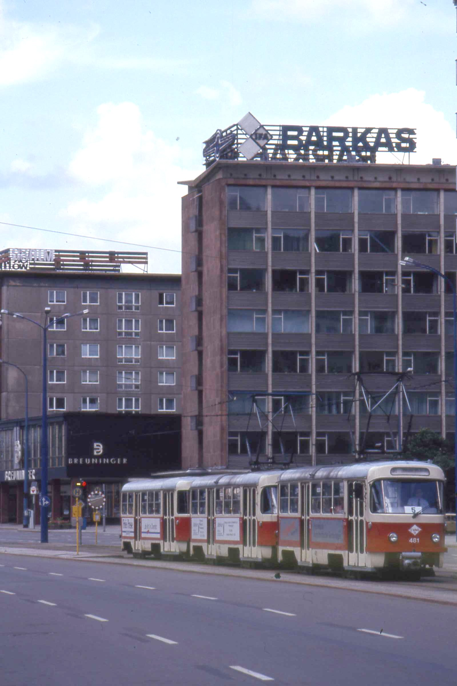 Two Tatra T3D trams with one Tatra B3D trailer in Chemnitz, Germany